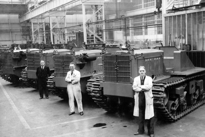 View of Shervick Tractors inside 136 Shop, Elswick Works, Newcastle upon Tyne, April 1948 (TWAM ref. 1027/269). These tractors were manufactured by Vickers after the Second World War, using Sherman tanks, which had become surplus to military requirements. ‘Workshop of the World’ is a phrase often used to describe Britain’s manufacturing dominance during the Nineteenth Century. It’s also a very apt description for the Elswick Works and Scotswood Works of Vickers Armstrong and its predecessor companies. These great factories, situated in Newcastle along the banks of the River Tyne, employed hundreds of thousands of men and women and built a huge variety of products for customers around the globe. The Elswick Works was established by William George Armstrong (later Lord Armstrong) in 1847 to manufacture hydraulic cranes. From these relatively humble beginnings the company diversified into many fields including shipbuilding, armaments and locomotives. By 1953 the Elswick Works covered 70 acres and extended over a mile along the River Tyne. This set of images, mostly taken from our Vickers Armstrong collection, includes fascinating views of the factories at Elswick and Scotswood, the products they produced and the people that worked there. By preserving these archives we can ensure that their legacy lives on. (Copyright) We're happy for you to share this digital image within the spirit of The Commons. Please cite 'Tyne & Wear Archives & Museums' when reusing. Certain restrictions on high quality reproductions and commercial use of the original physical version apply though; if you're unsure please .